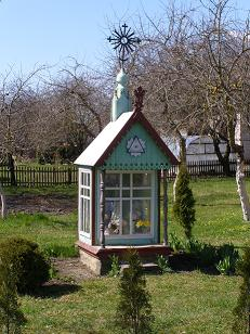 Laiviai, Kretinga district, Lithuania